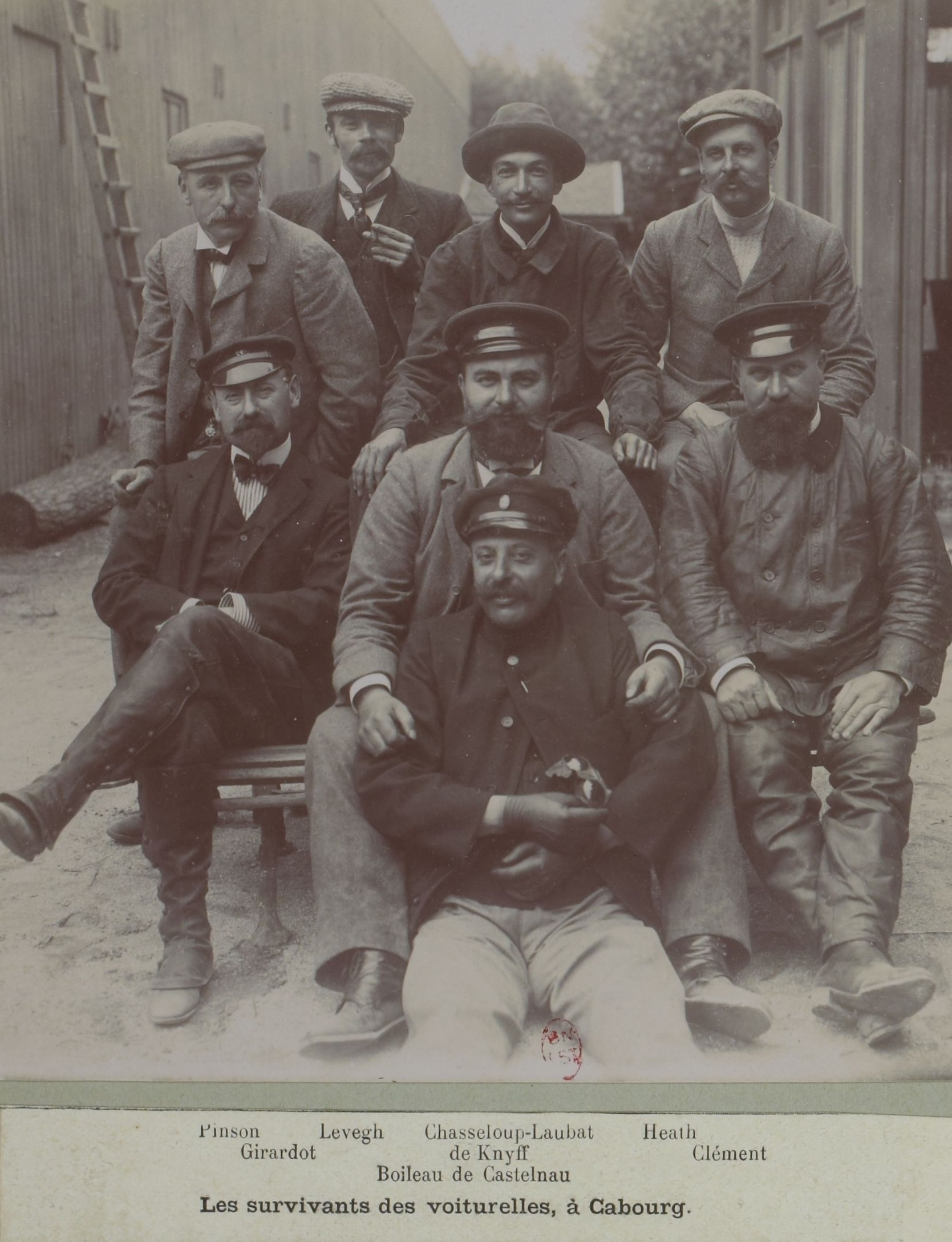 [Collection Jules Beau. Photographie sportive] : T. 10. Année 1899 / Jules Beau : F. 7v. [Course automobile du Tour de France, 1899]